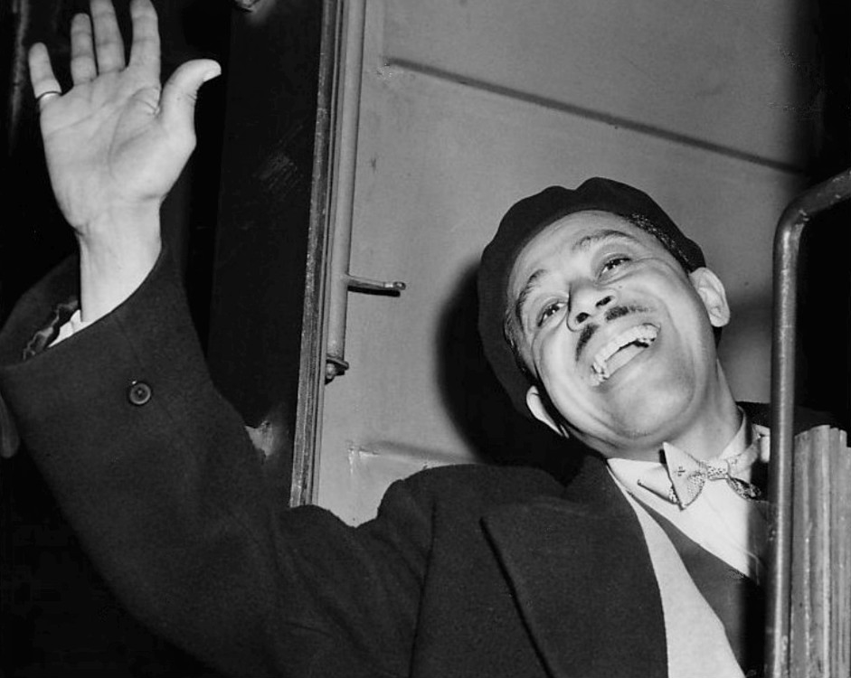 Photo of Cab Calloway waving hello as he arrives in Minneapolis by train in 1954.